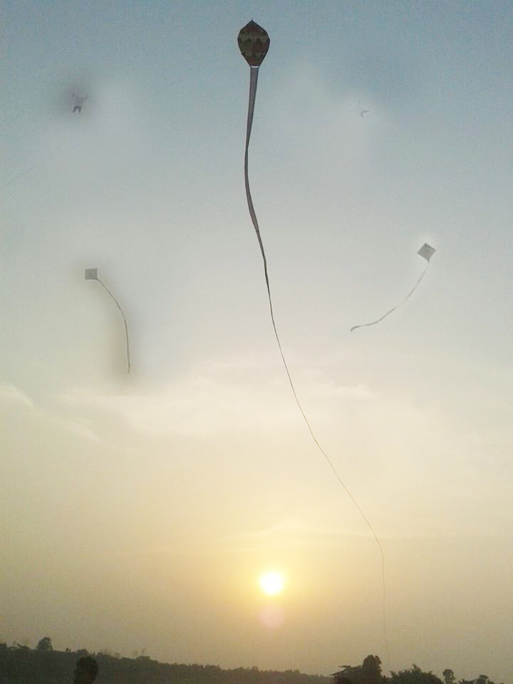 Kite of Bangladesh